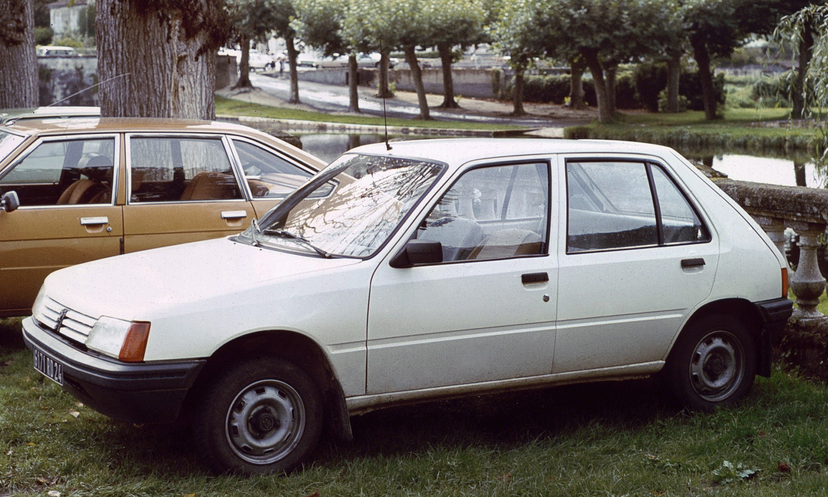 Peugeot 205 in the Dordogne (Chrysler / Simca Alpine in background)